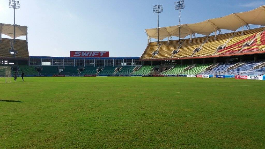 The interior of the Greenfield Stadium in Kerala.